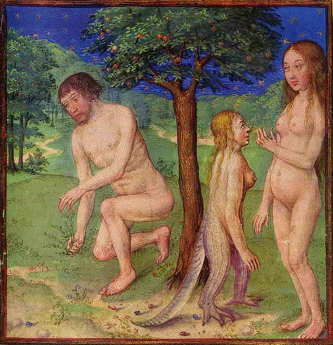 Adam and Eve (manuscript illumination)